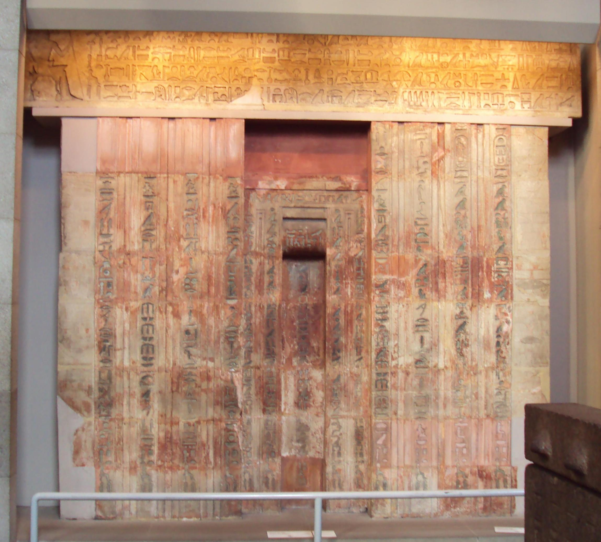 Limestone false door of Ptahshepses. From Saqqara, Egypt 5th Dynasty. Ancient wall of hieroglyophics inside the British Museum, London.